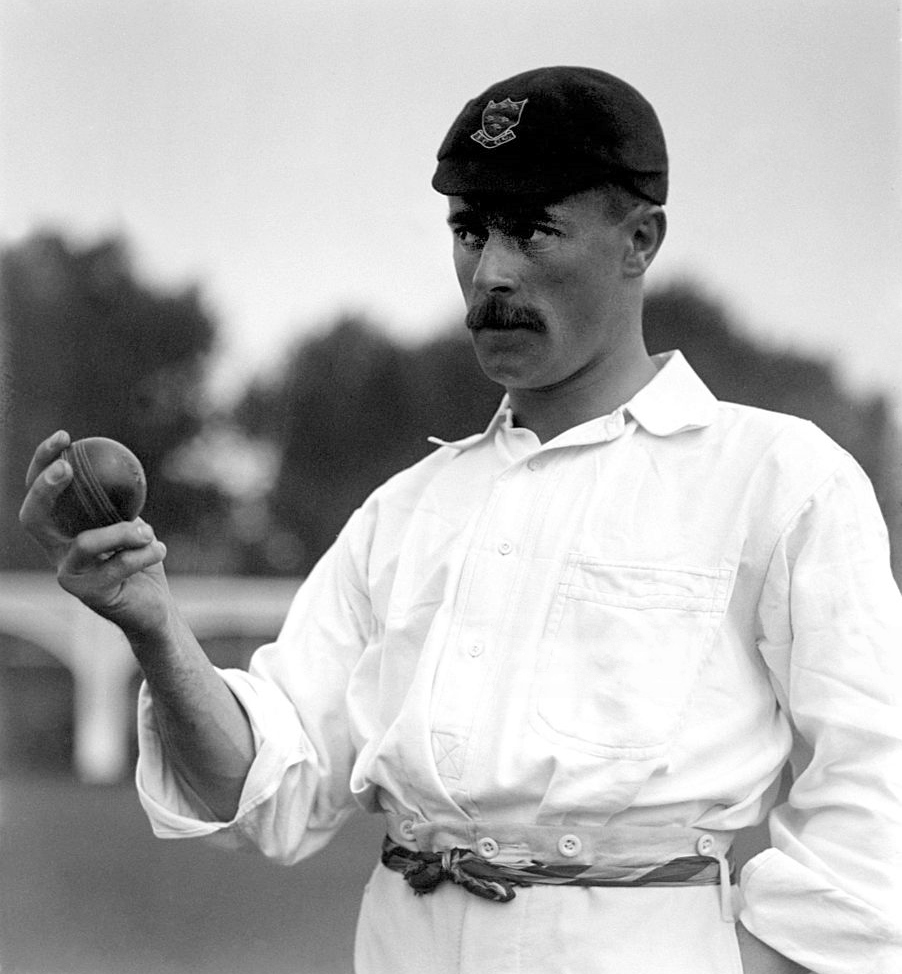 Joseph Vine, Sussex, London County and England, circa 1905.